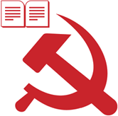 Party of Communists of the Republic of Moldova